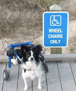 Hey! Look At Me! I love to run and play on the beach in my dog wheelchair from